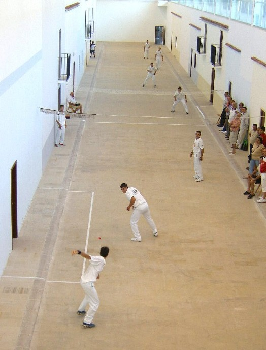 Galotxa match at the artificial street of Benidorm.